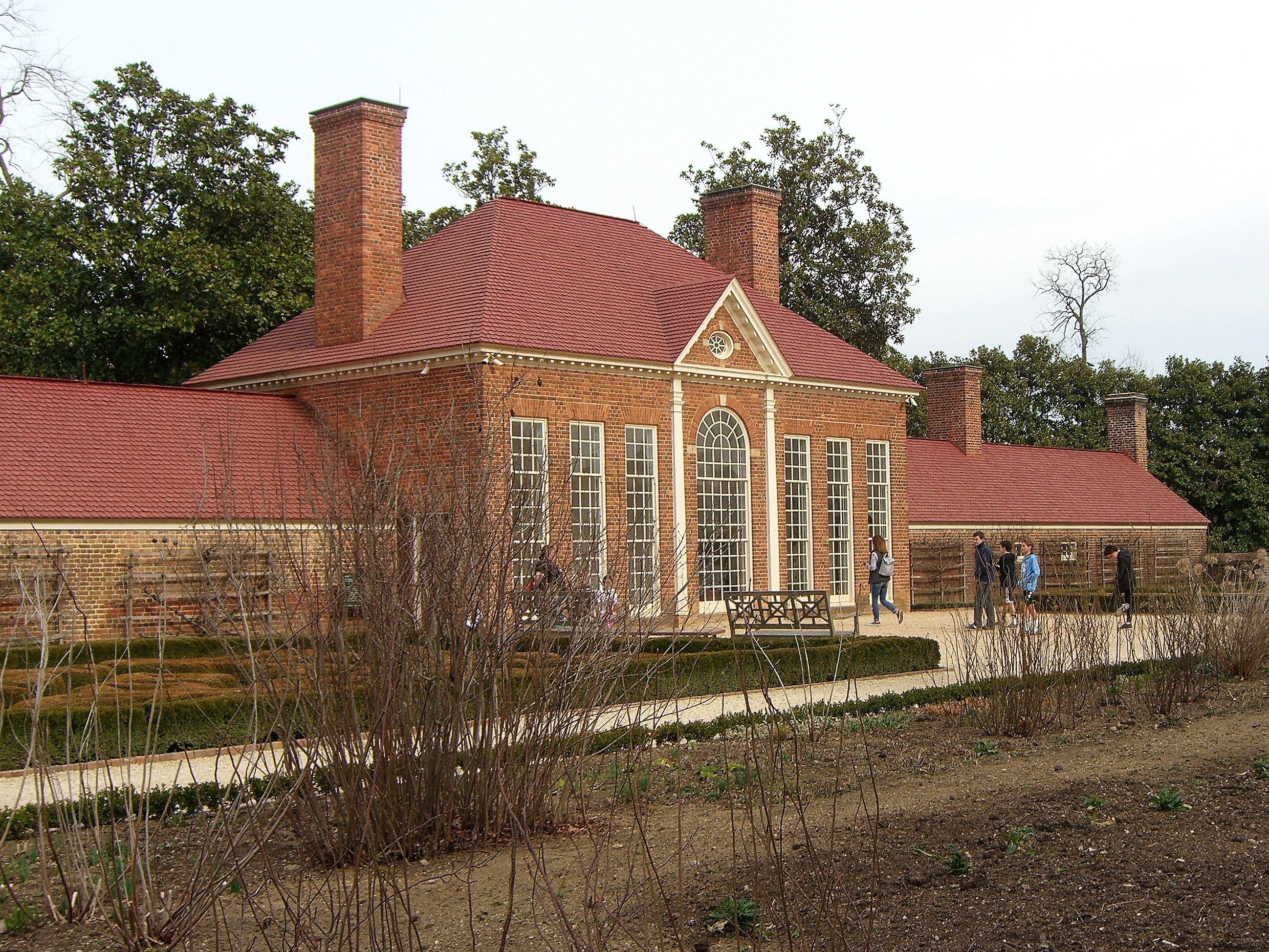 The reconstructed, designed by George Washington in the Upper Garden of Mount Vernon, Virginia.